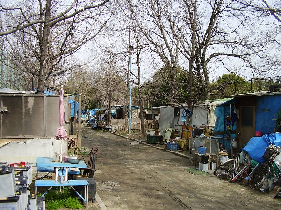 Nishinari Park